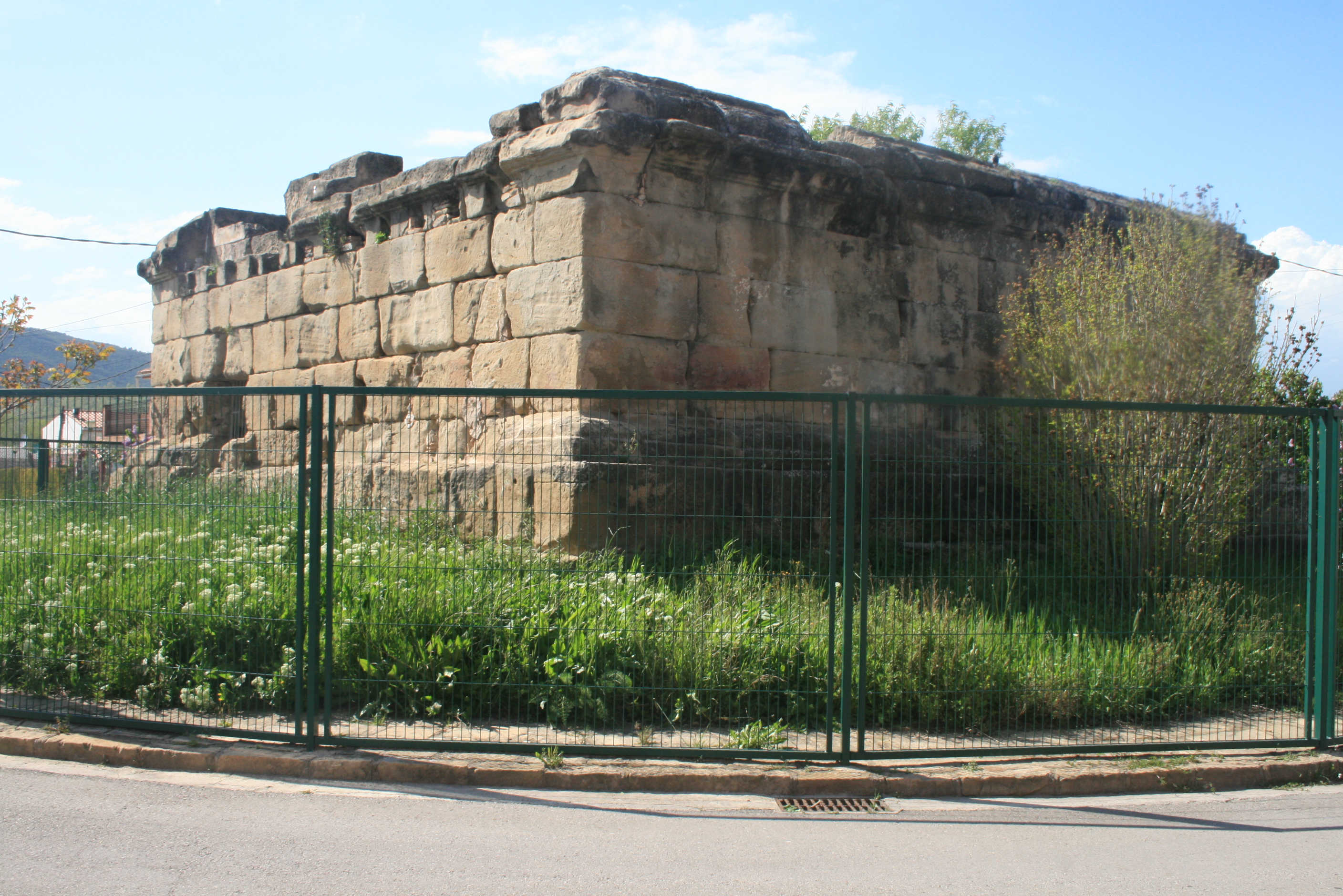 Torre del Breny; roman monument in Castellgalí, Bages county, Catalonia